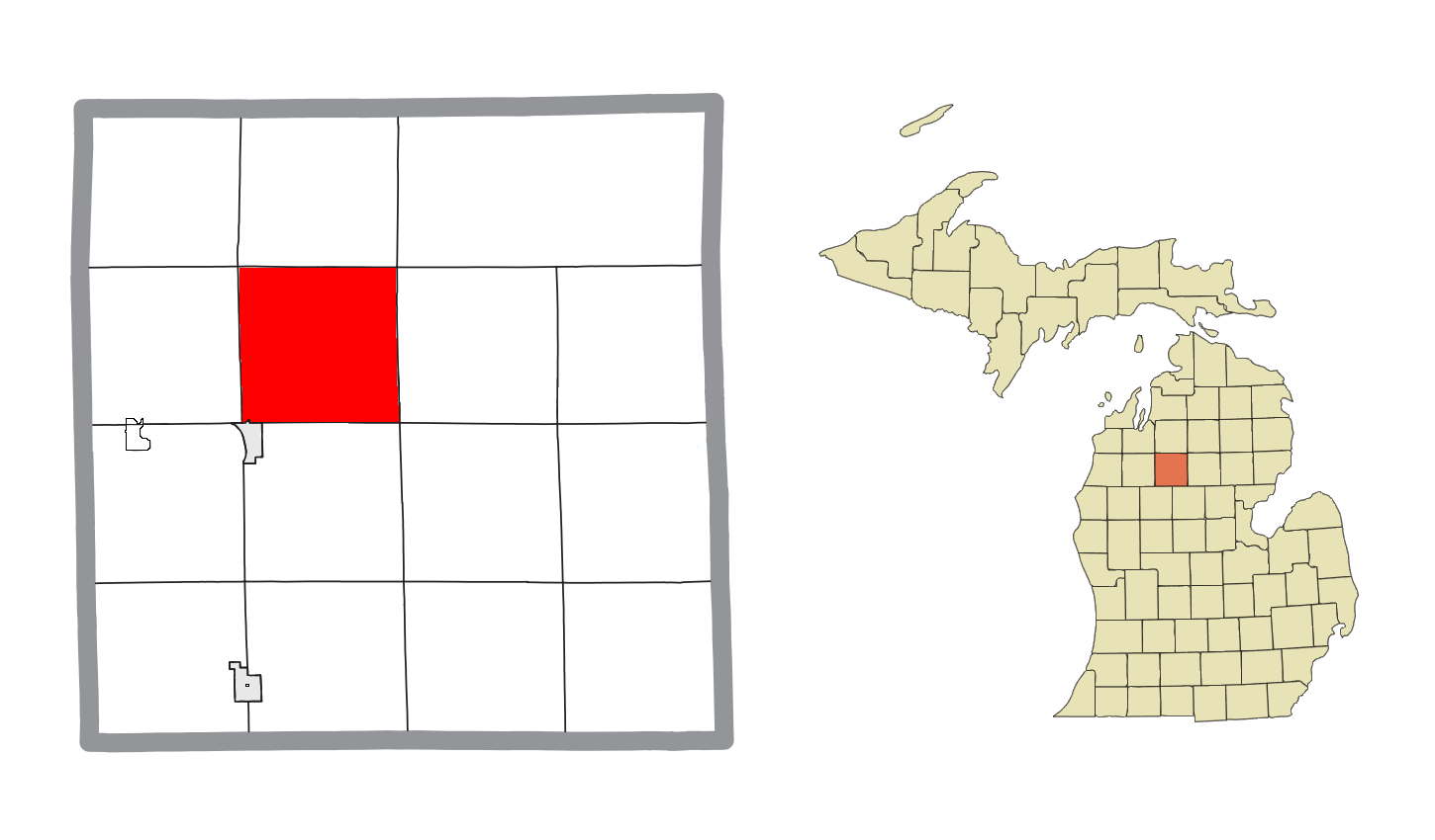 Forest Township (Missaukee), MI